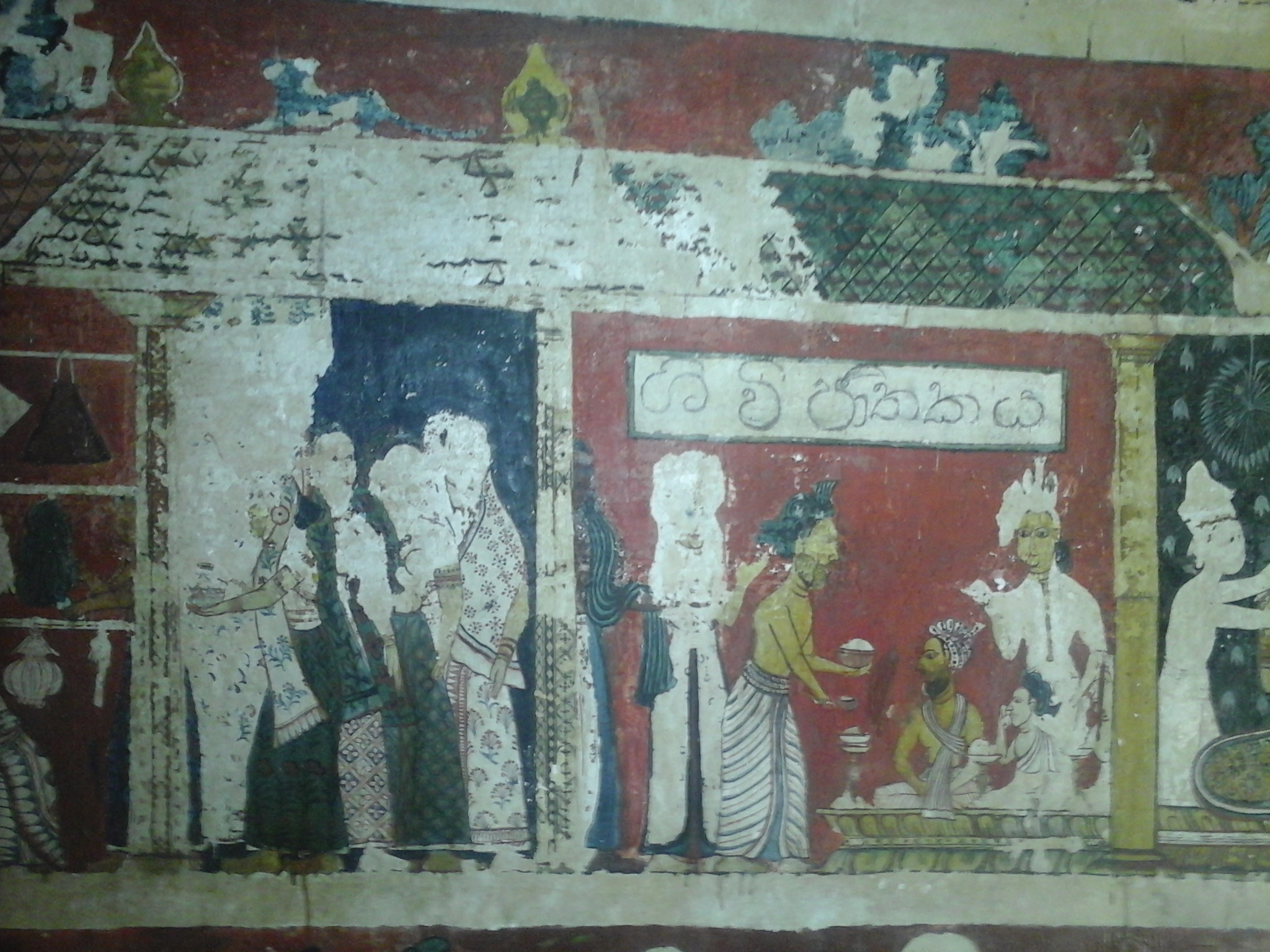 Paintings at Mulkirigala temple